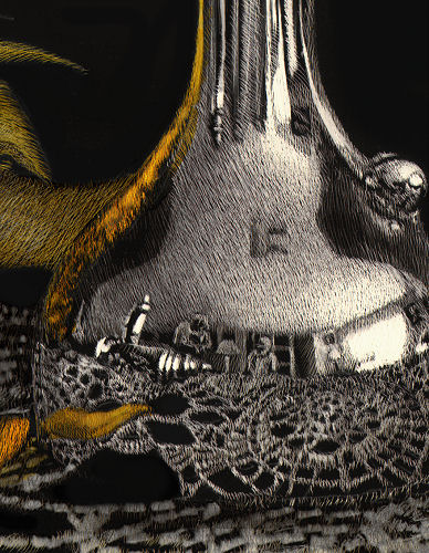 This is an extreme close-up image of the scratchboard Sunflower and Silver. Used to show detail of the scratching technique.